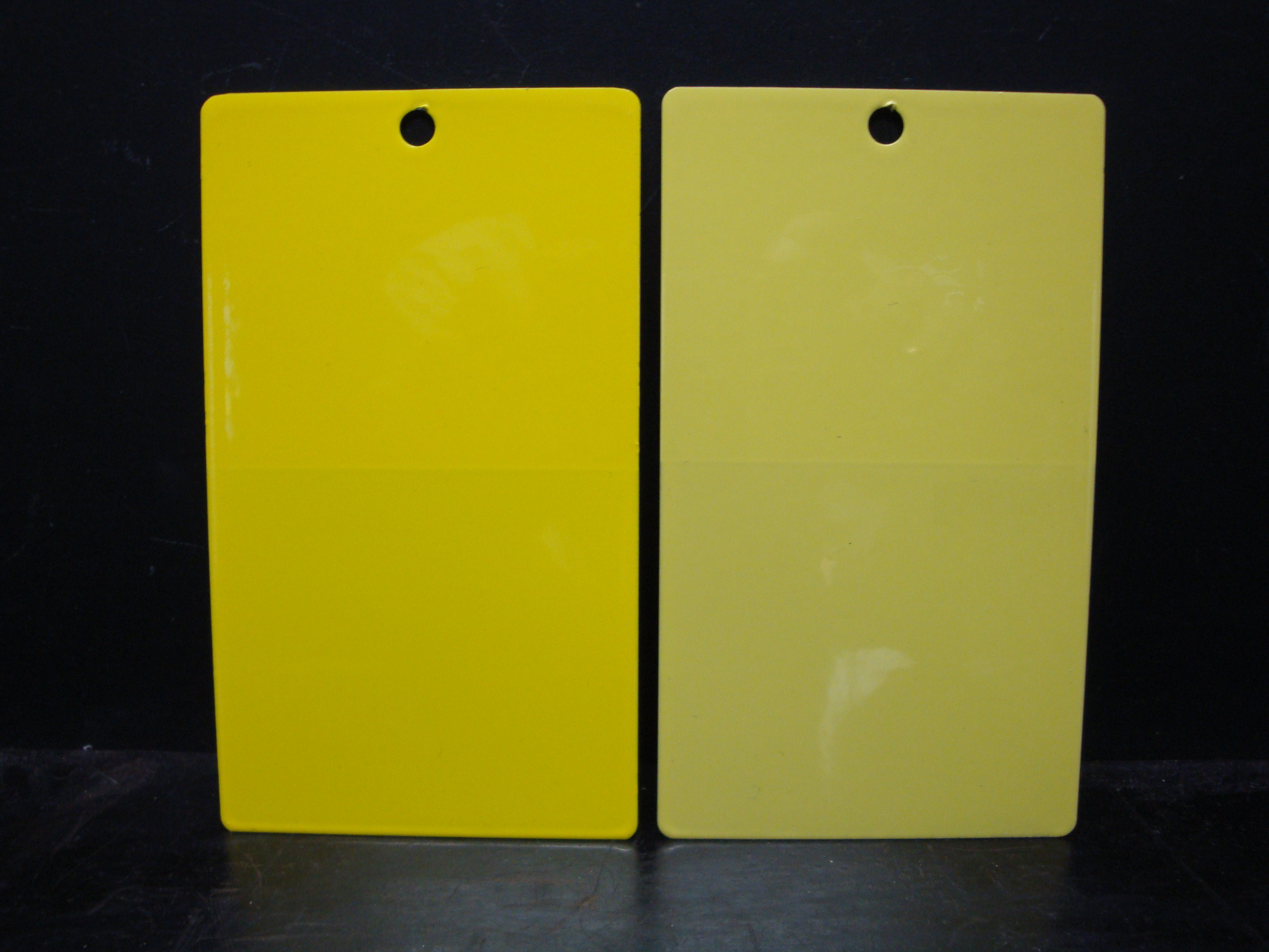 Comparison of of C.I. Pigment Yellow 184 (left) and C.I. Pigment Yellow 53 (right) in full shade